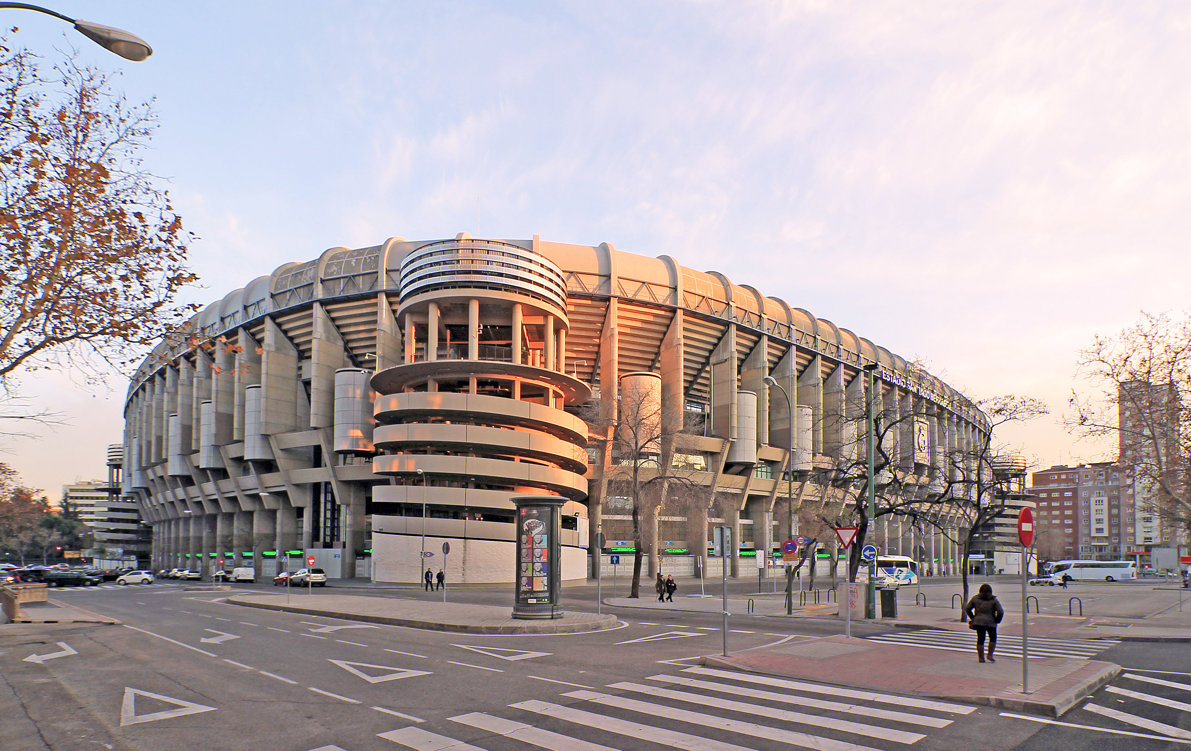 View of Santiago Bernabéu Stadium in Madrid (Spain) from the north-west angle.